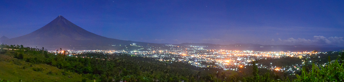 Legazpi City at Night